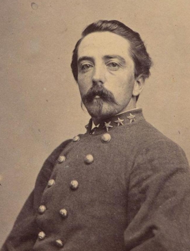 Portrait of Colonel Henry M. Ashby in uniform from Carte-de-Visite of a portrait of Colonel Henry M. Ashby in uniform. Inscription on front: Col Ashby, Ga. Inscription on back: Col Ashby of Ga., New, cv 320 p63, Col. Henry M. Ashby 2nd Tenn. Cav. Bears stamp of Confederate Museum, Richmond, Va., and 2 cent stamp on back. From the Collections of the Confederate Memorial Literary Society